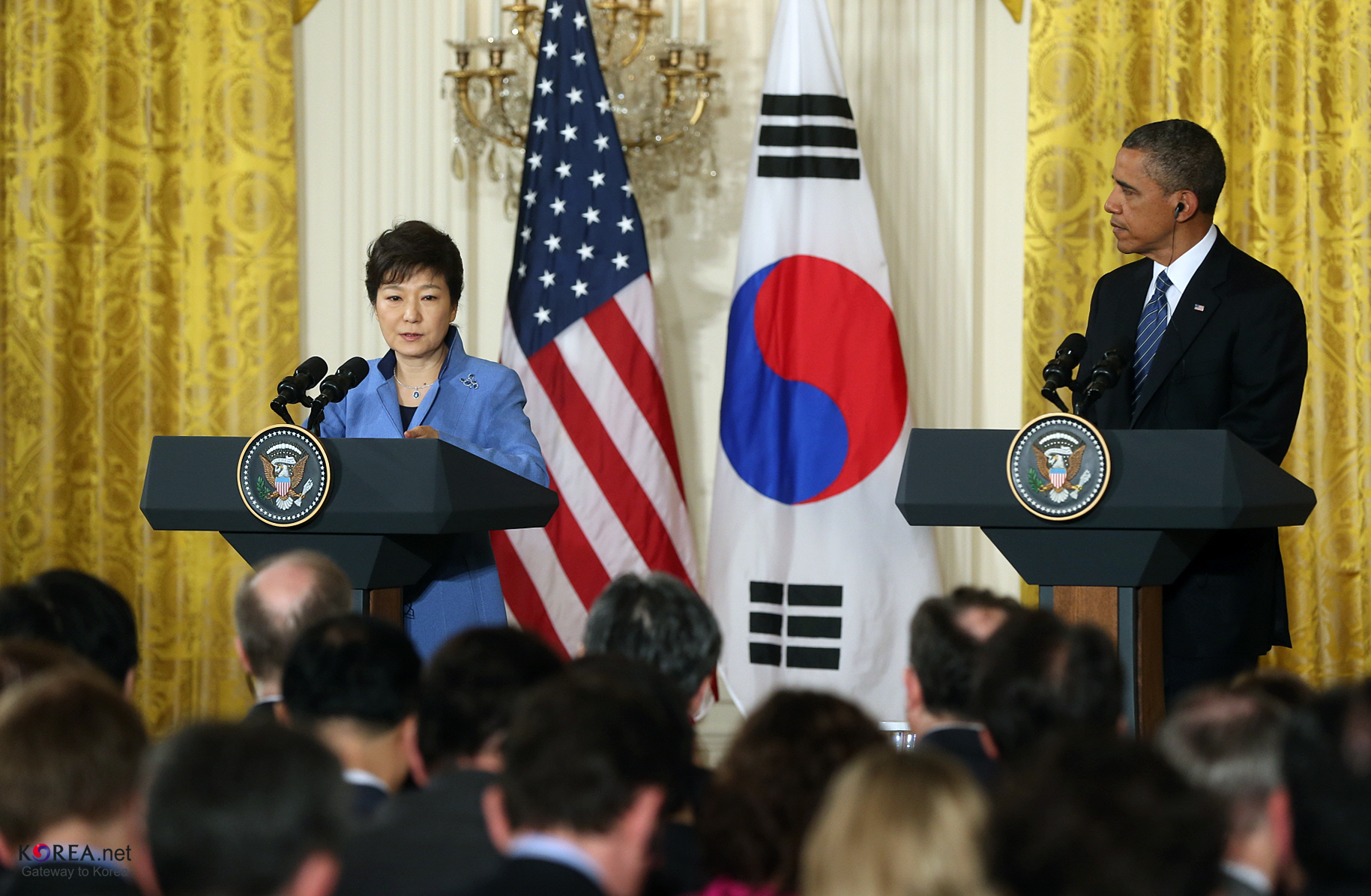 President Park holds joint press conference with U.S. President President Park Geun-hye (left) and U.S. President Barack Obama receive questions during a joint press conference after holding summit talks on May 7 at the White House. 2013.05.07.(U.S. Eastern Time) Cheong Wa Dae -Related Article- "Korea-U.S. alliance opens a new era of hope" 한·미 정상회담 공식 기자회견 박근혜 대통령과 버락 오바마 미국 대통령이 7일 오후（현지시간） 백악관 이스트룸에서 한ㆍ미 정상 공동기자회견을 하고 있다. 청와대